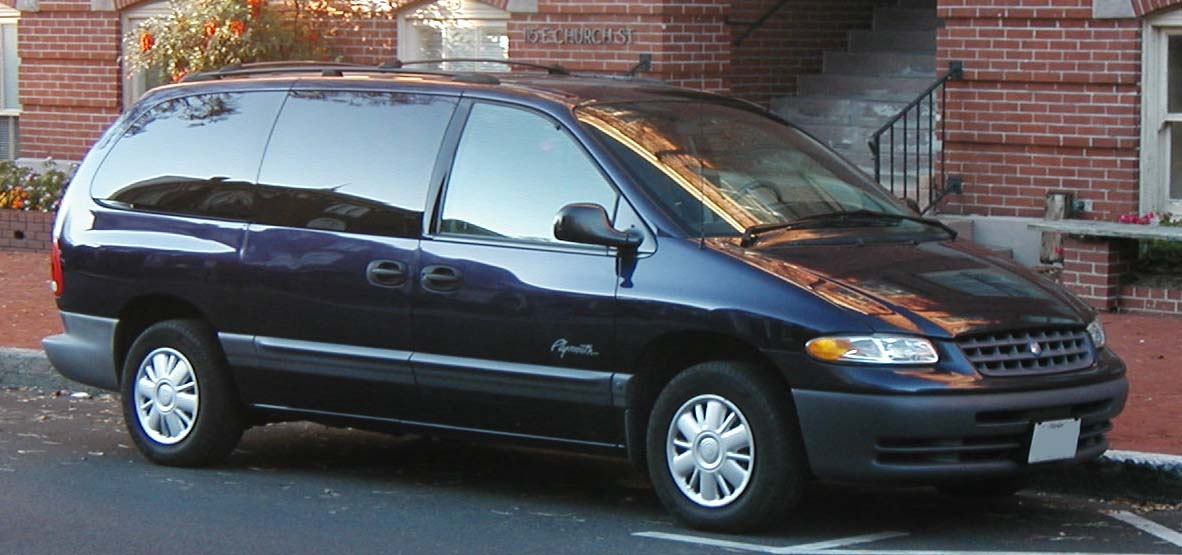 1996-1999 Plymouth Grand Voyager photographed in USA.